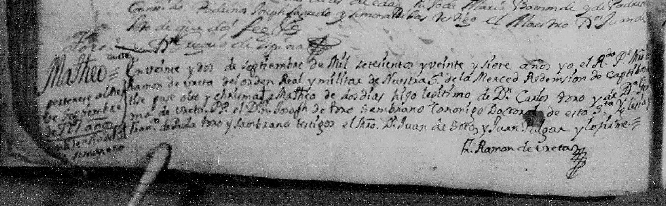 Baptism of the 1st Count of la Conquista